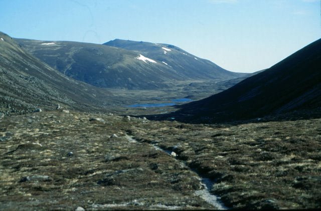 Lairig an Laoigh The Pass of the Cattle to give it its English name looking north from the top of the pass to the Dubh Lochan and A' Choinneach